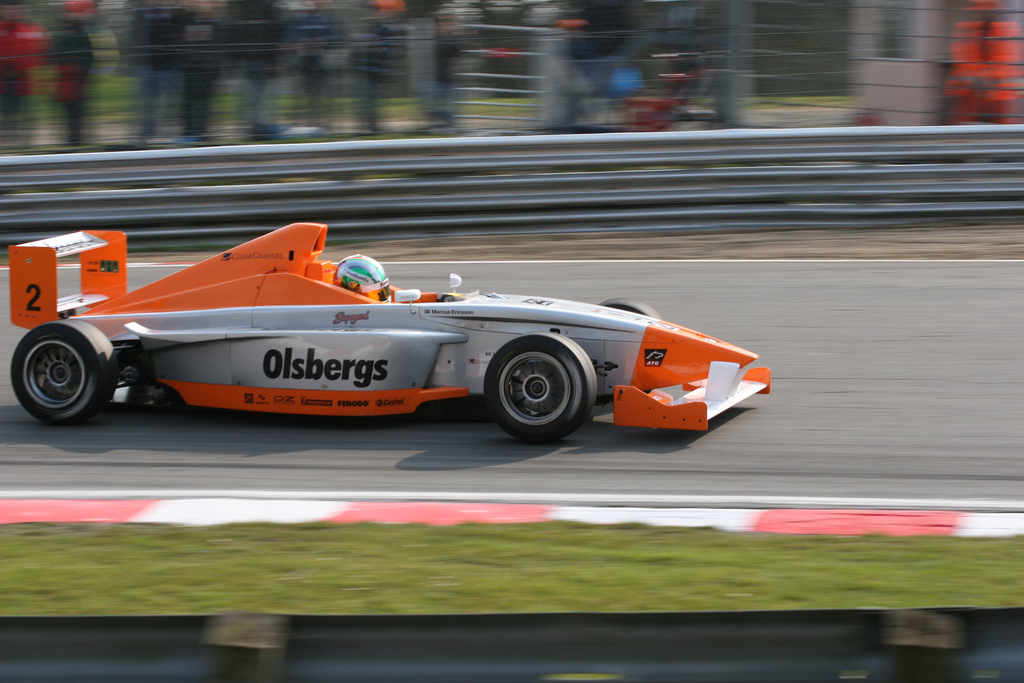 Marcus Eriksson (Fortec Motorsport) racing his Formula BMW car to victory in his second FBMW start at Brands Hatch